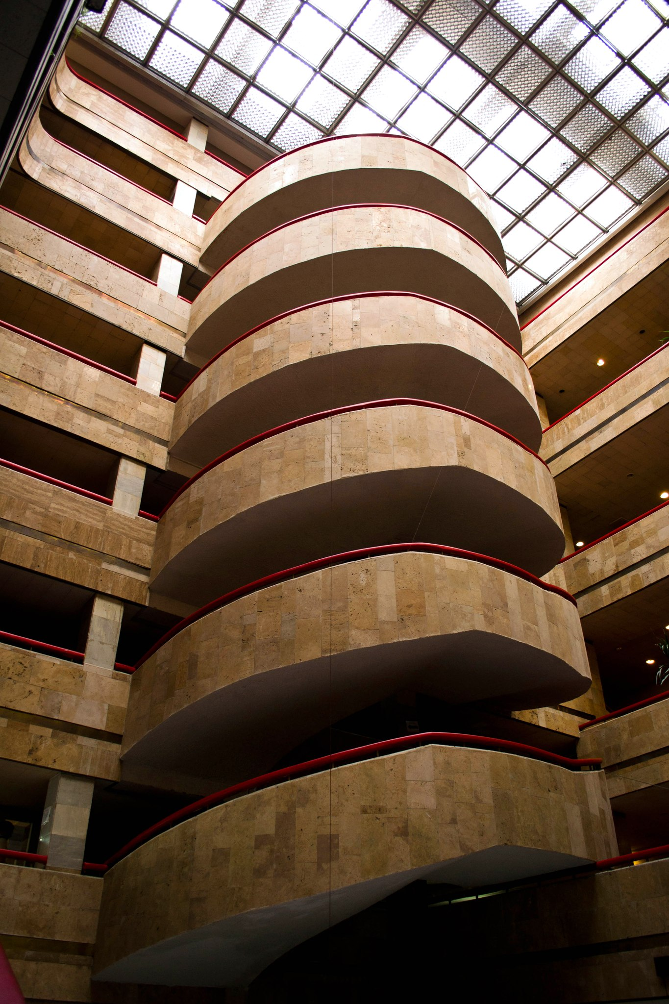 Stairs in the The Scientific and Technical Library of NTUU "KPI", Kyiv, Ukraine.